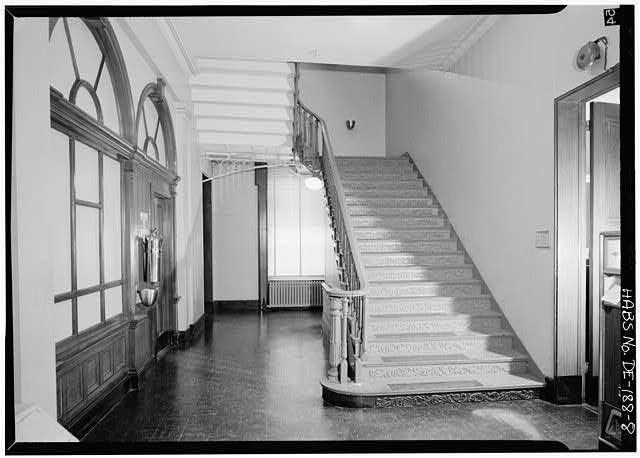 GENERAL VIEW, MAIN CENTRAL HALL, FIRST FLOOR, WEST TO EAST - Old Customs House, King at Sixth Street, Wilmington, New Castle County, DEU. S. Customhouse, Wilmington, DE 518 N. King Street, Wilmington, Delaware.